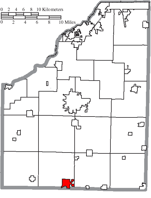 Map of the municipal and township boundaries of Wood County, Ohio, United States, as of the 2000 census, with the location of the village of North Baltimore highlighted. Township borders are shown only in unincorporated areas in order to differentiate incorporated and unincorporated areas more clearly.